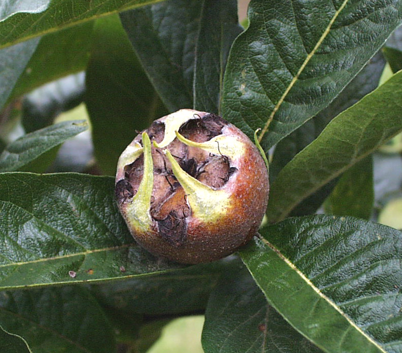 Mespilus germanica photo from the National Germplasm Repository in Corvallis, Oregon.